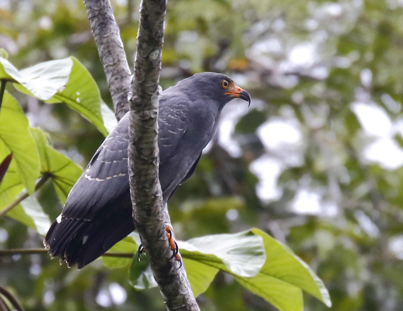 Slender-billed kite, Careiro da Várzea, Amazonas, Brazil